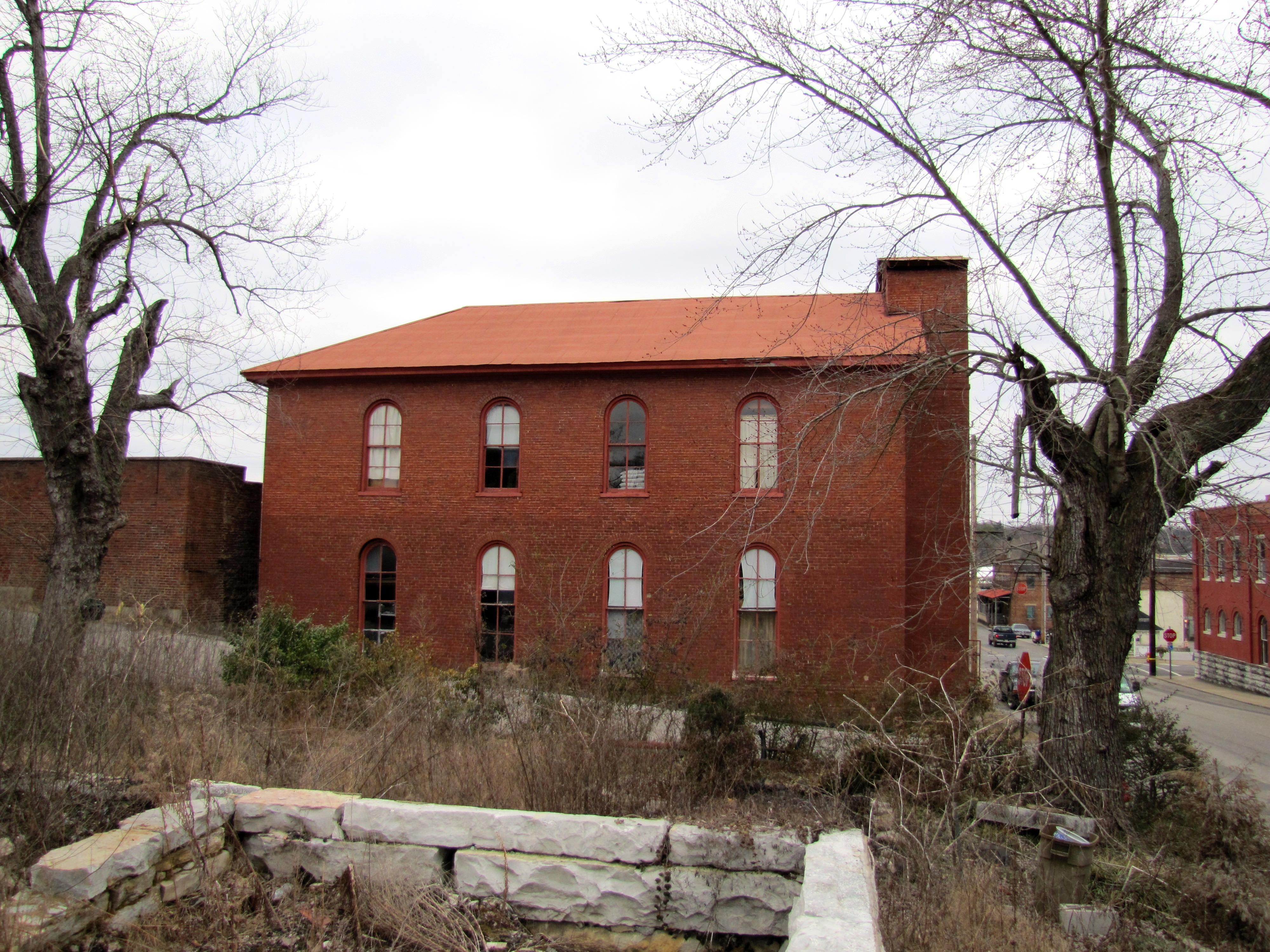 The old Methodist Church building in Hartsville, Tennessee, USA. Built in 1850, the church housed a Methodist congregation until the 1940s.